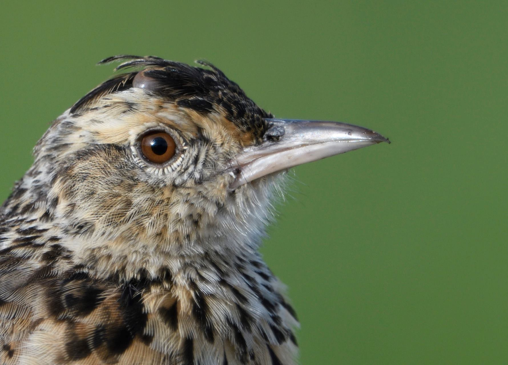 Blackish lark, a taxon consisting of two subspecies within the Rufous-naped lark taxon complex, photographed at Kitulo National Park in southwestern Tanzania